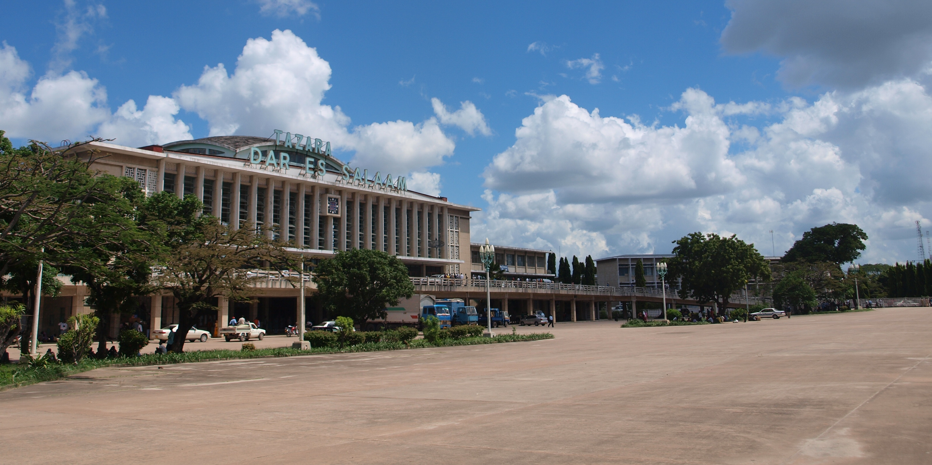 The TAZARA railway station in Dar es Salaam.